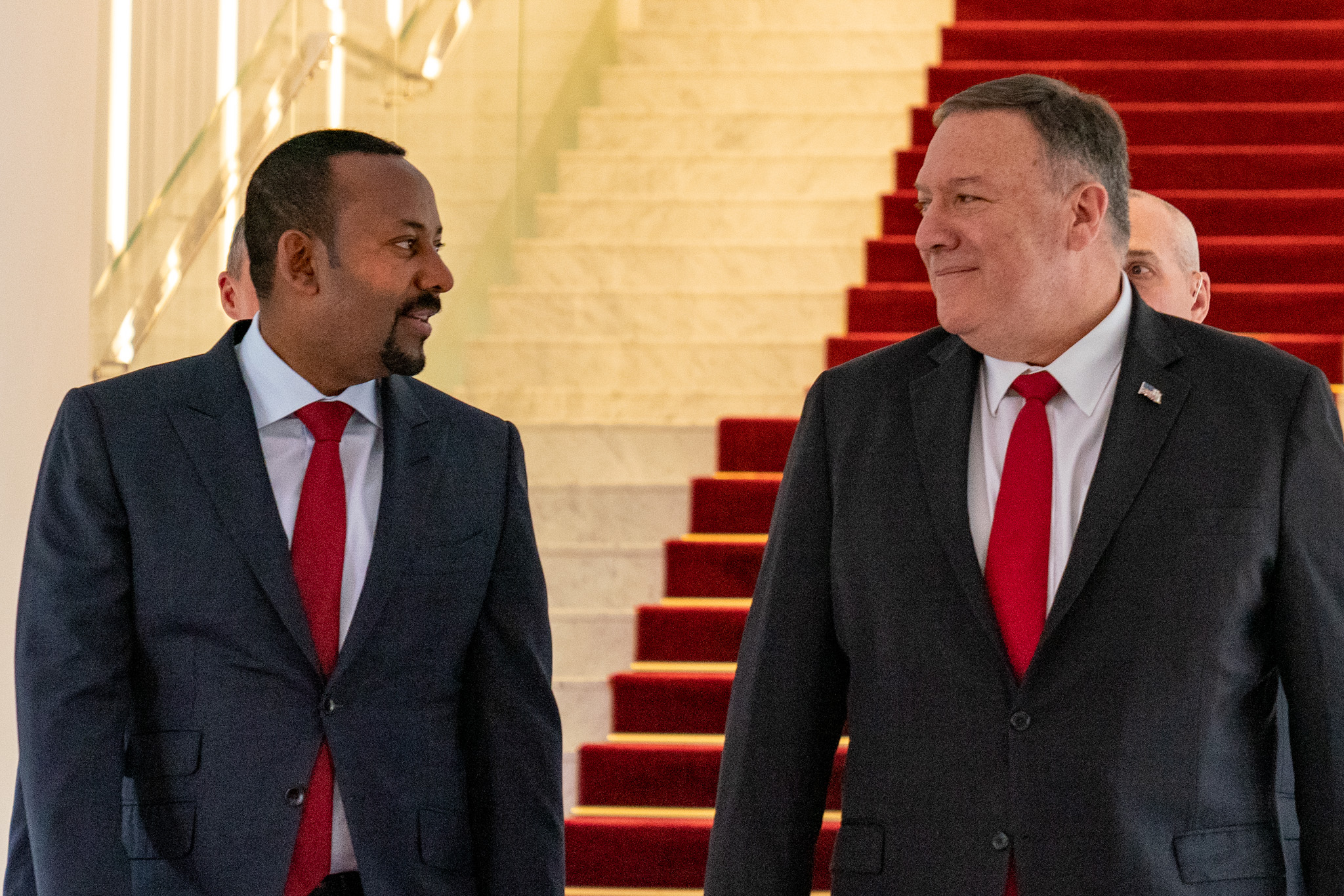 Secretary of State Michael R. Pompeo meets with Ethiopian Prime Minister Abiy Ahmed in Addis Ababa, Ethiopia, on February 18, 2020. [State Department Photo by Ron Przysucha/ Public Domain]